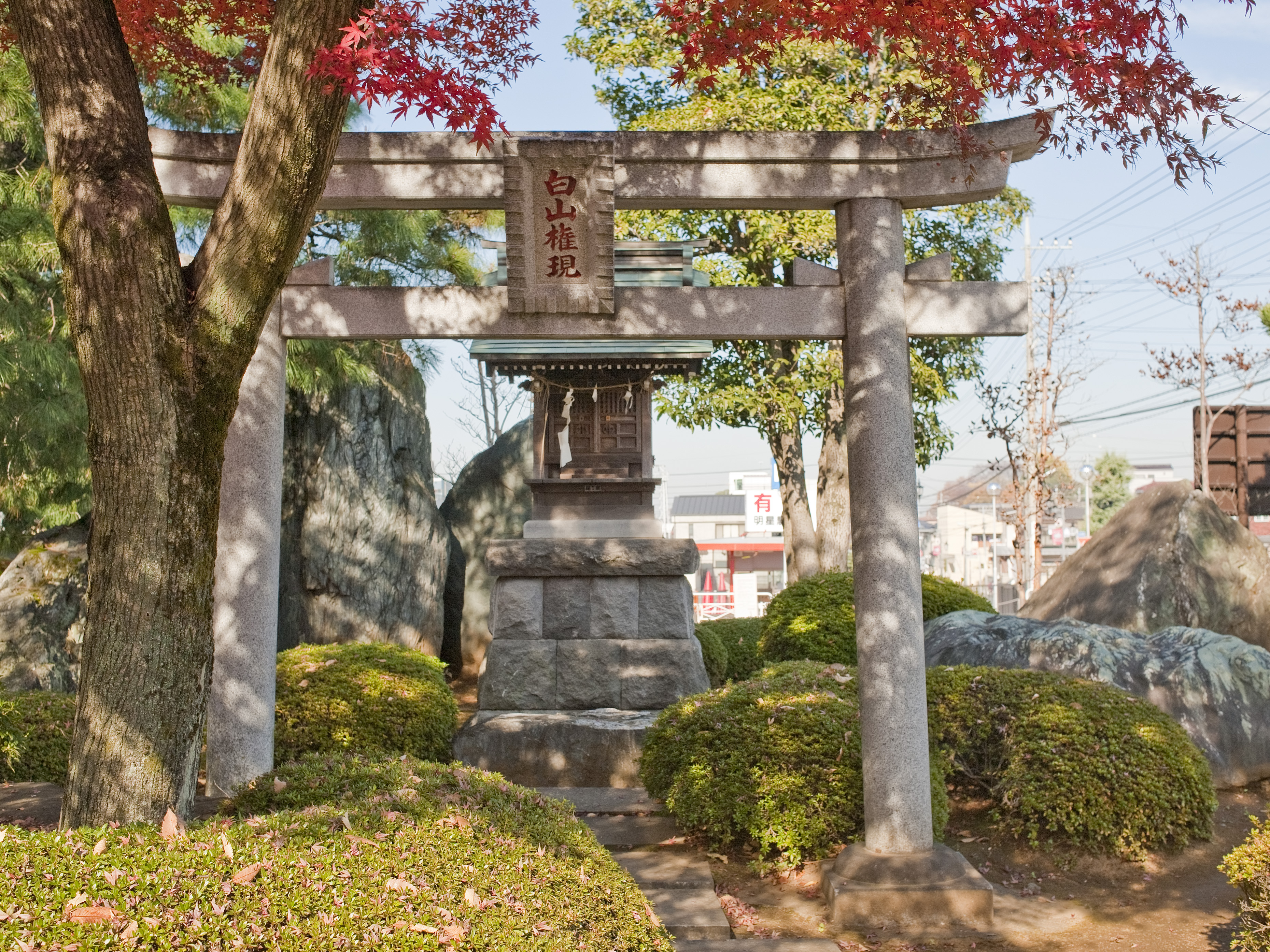 A small Shinto shrine called Hakusan Gongen, following the pre-Meiji terminology, at Kita-in, Kawagoe.